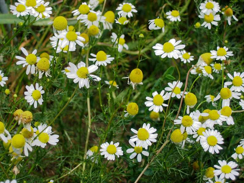 Chamomile, Matricaria recutita